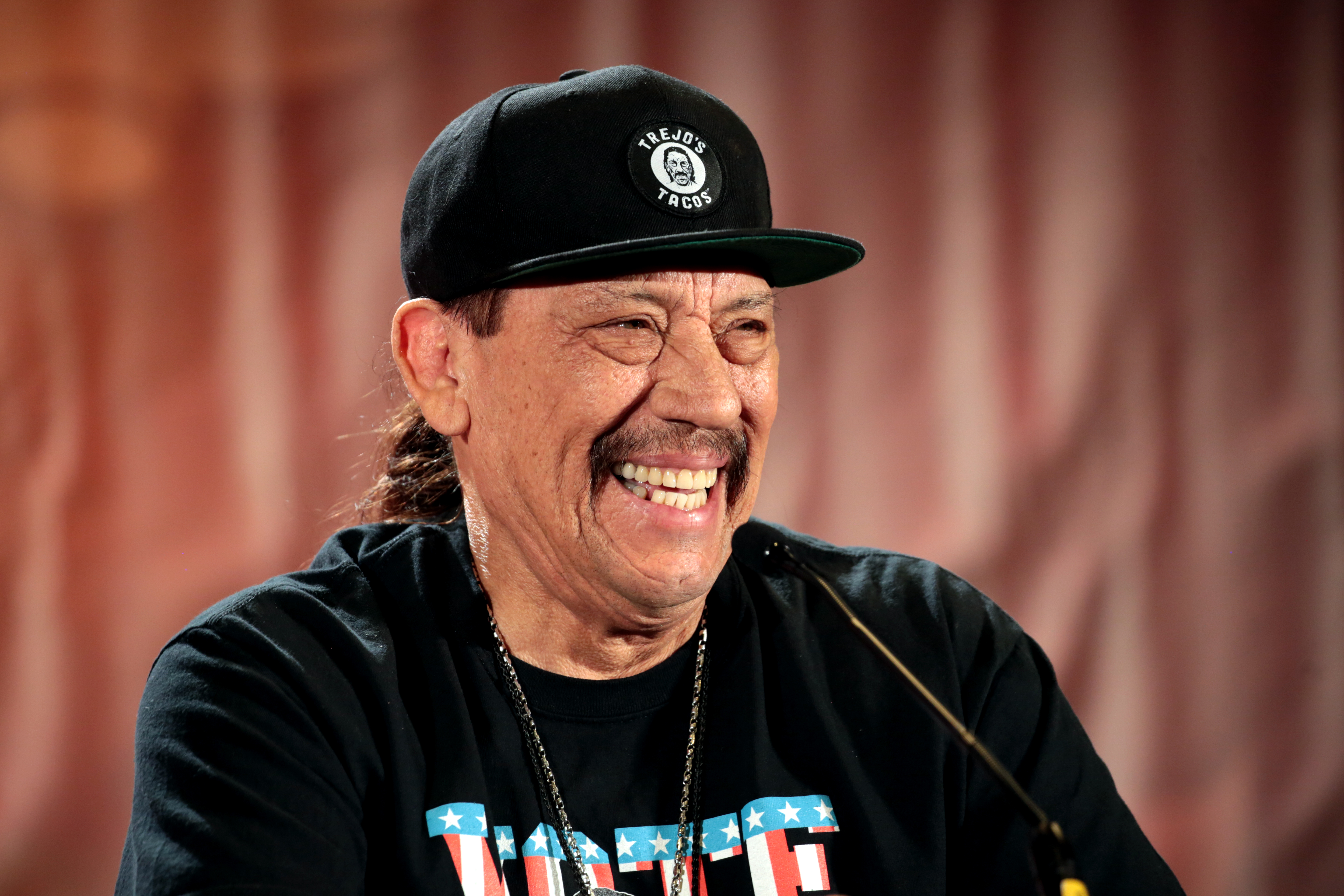 Danny Trejo speaking at the 2017 Phoenix Comicon at the Phoenix Convention Center in Phoenix, Arizona.